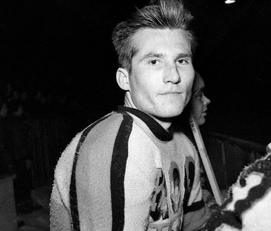 Photograph of the Finnish ice hockey player Heino Pulli (1938–2015).